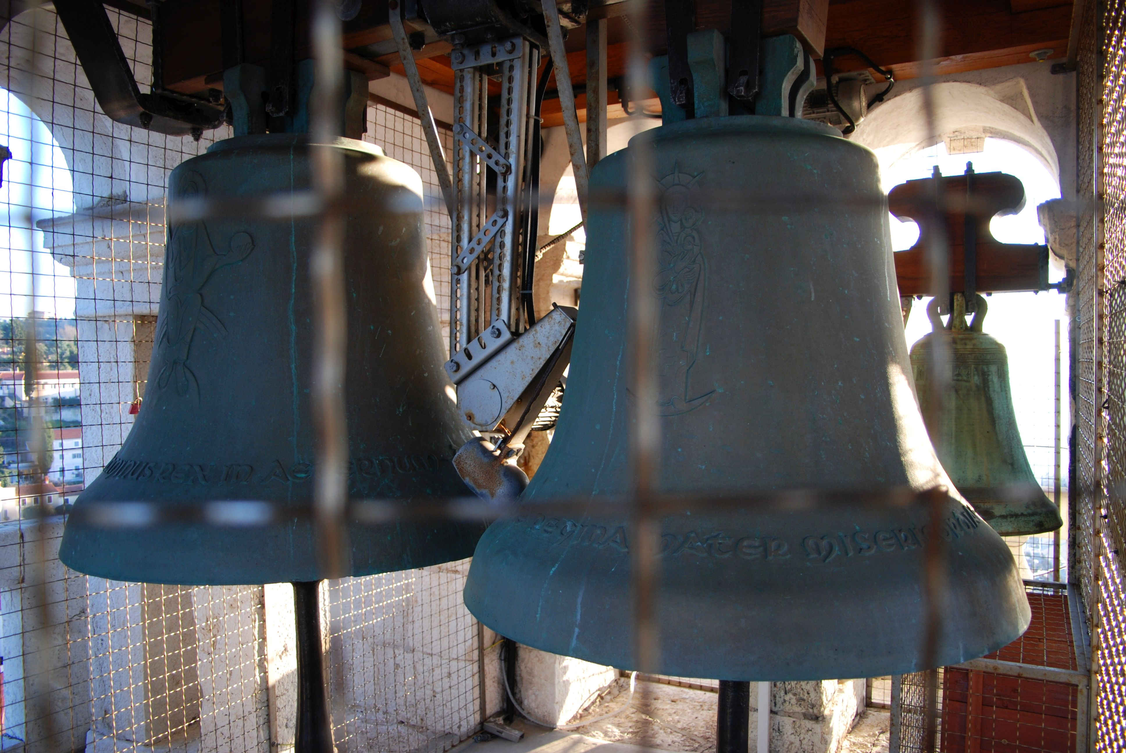 Bells in the campanile of St. George's Church in Piran (southwestern Slovenia).